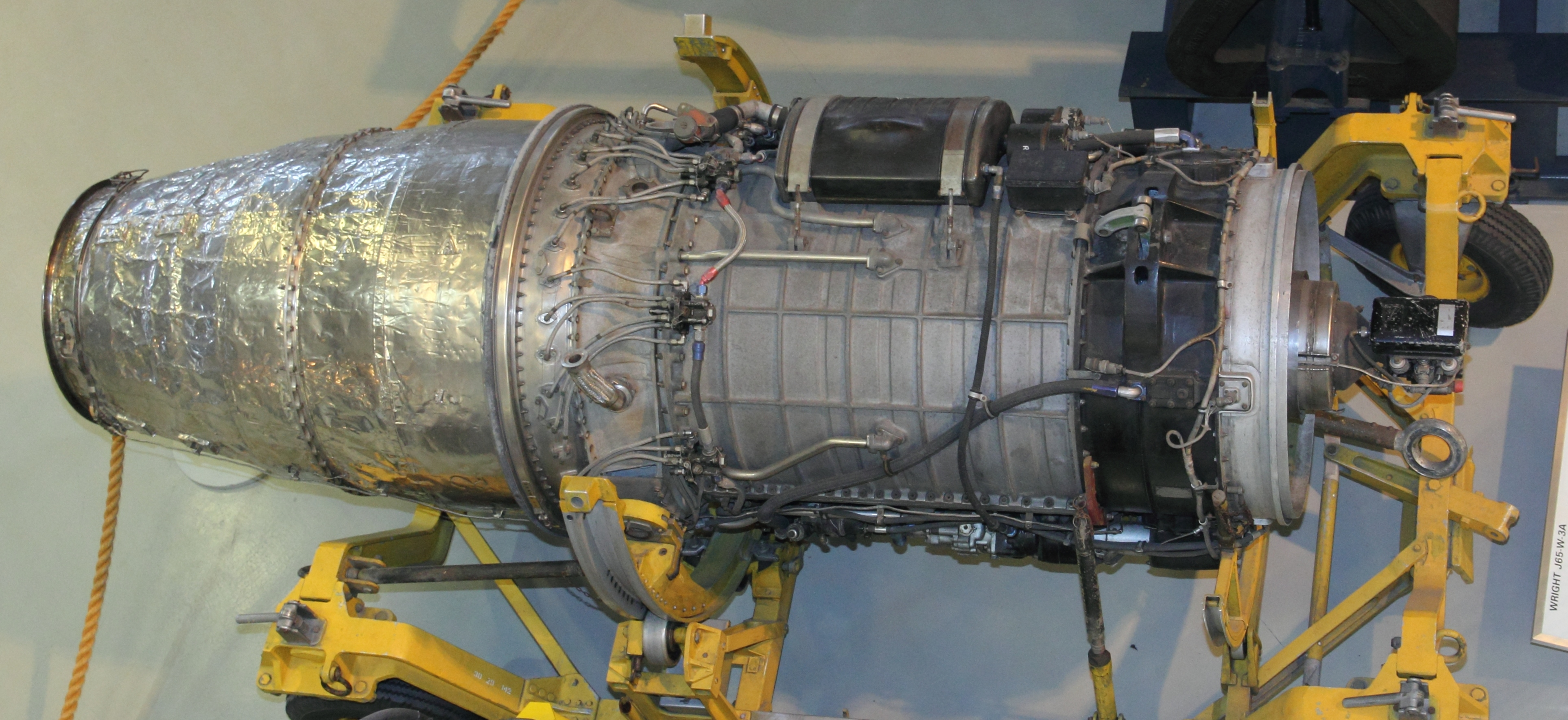 Wright J65-W-3A jet engine serial number 600997 in the Aviation Museum of Central Finland.